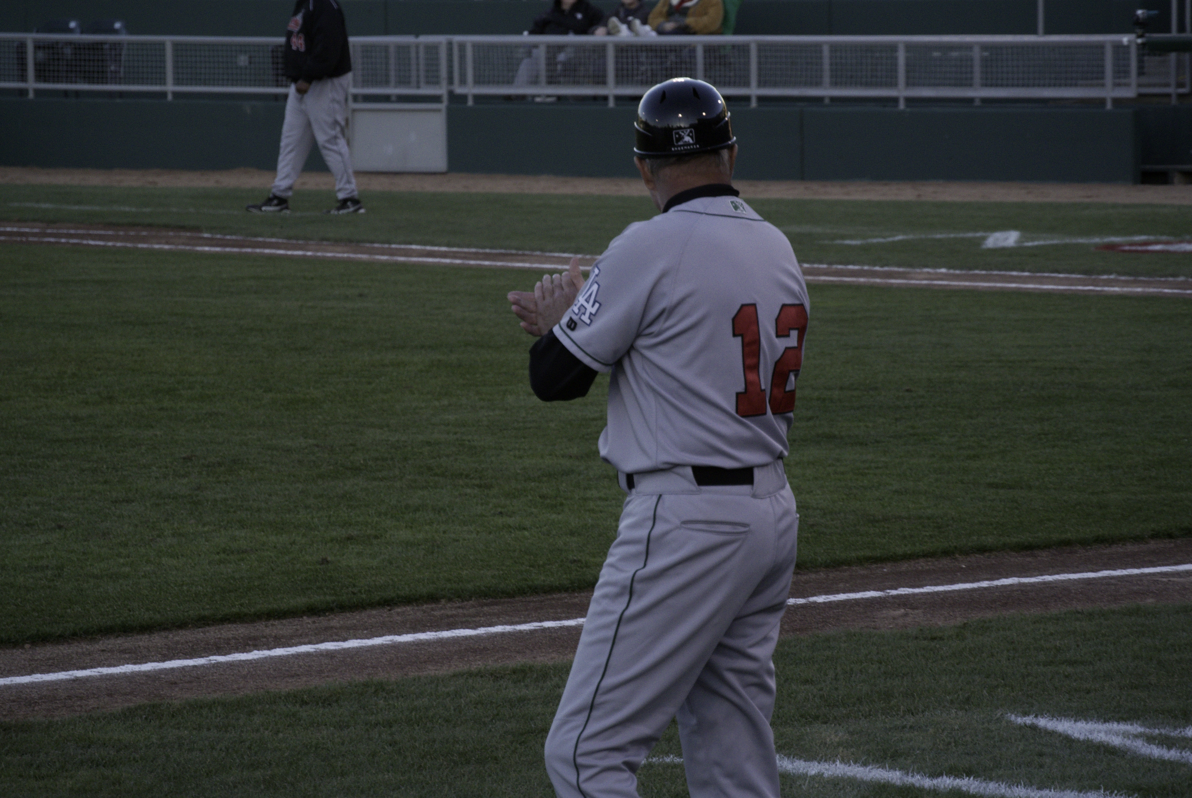 John Shoemaker as Manager of the Great Lakes Loons in 2012